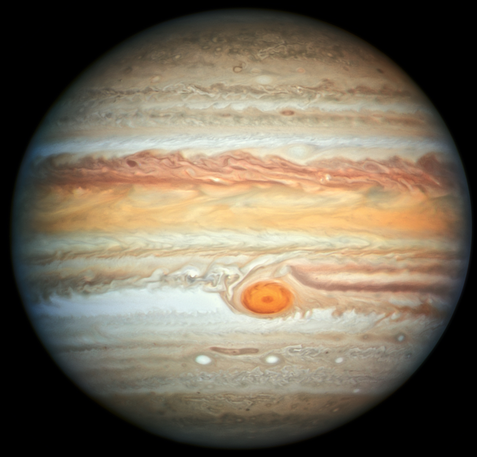 Visible light image of Jupiter taken by NASA's Hubble Space Telescope on June 27, 2019.